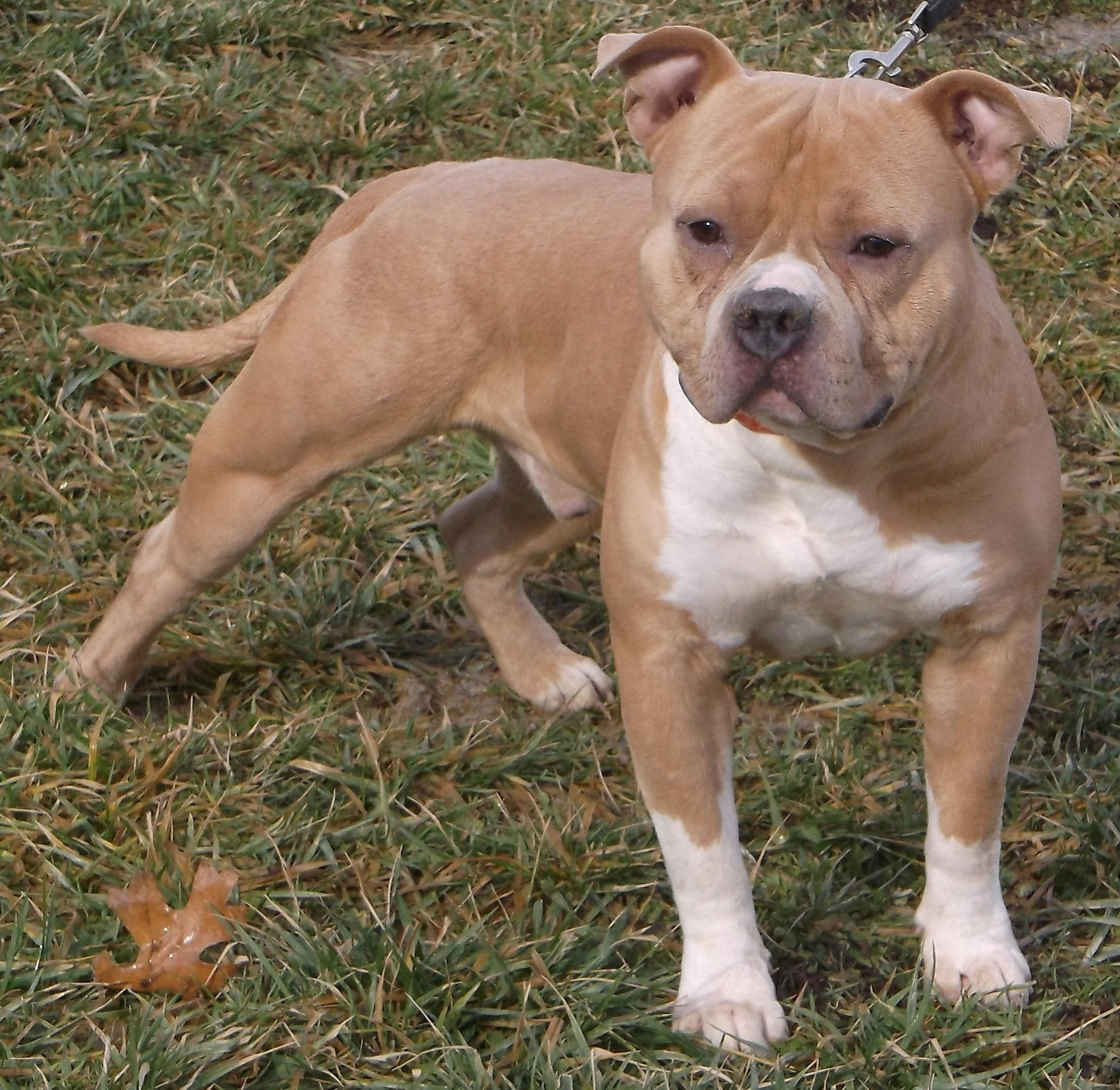 Classic/standard type fawn American Bully dog with uncroppedd ears